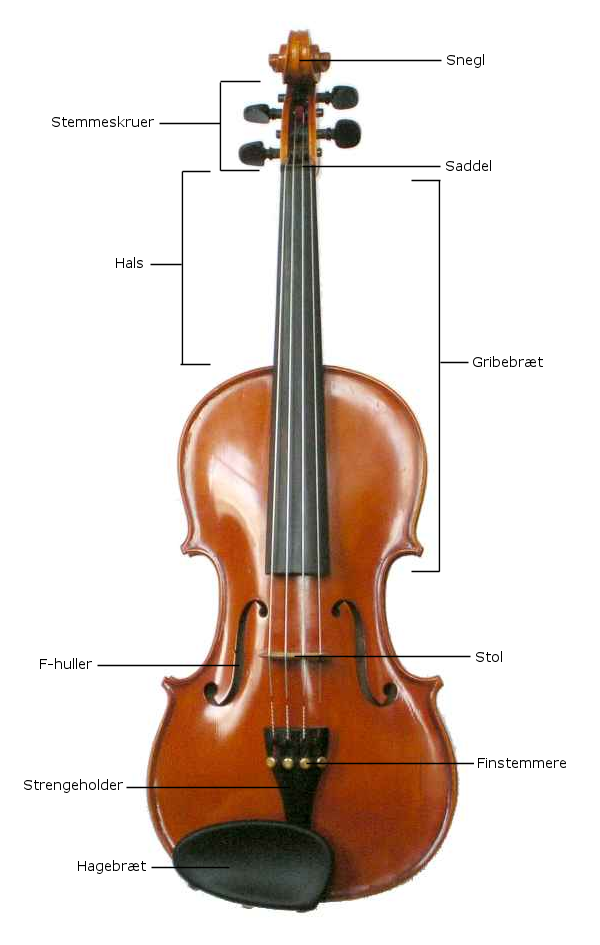 Violin with description of the parts of the violin